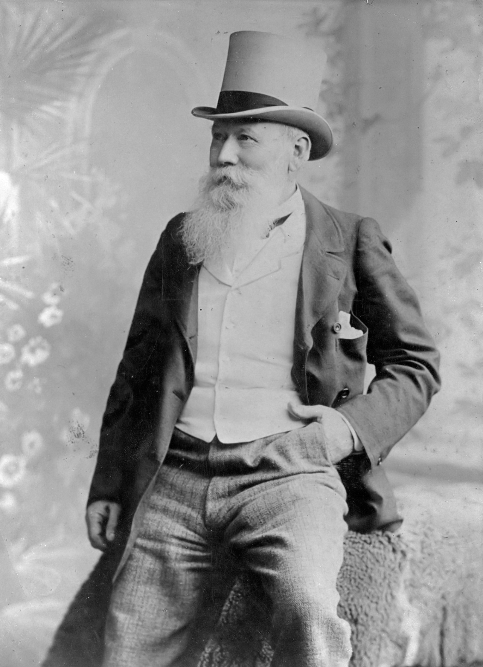 Jock Willis, ship-owner who commissioned Cutty Sark